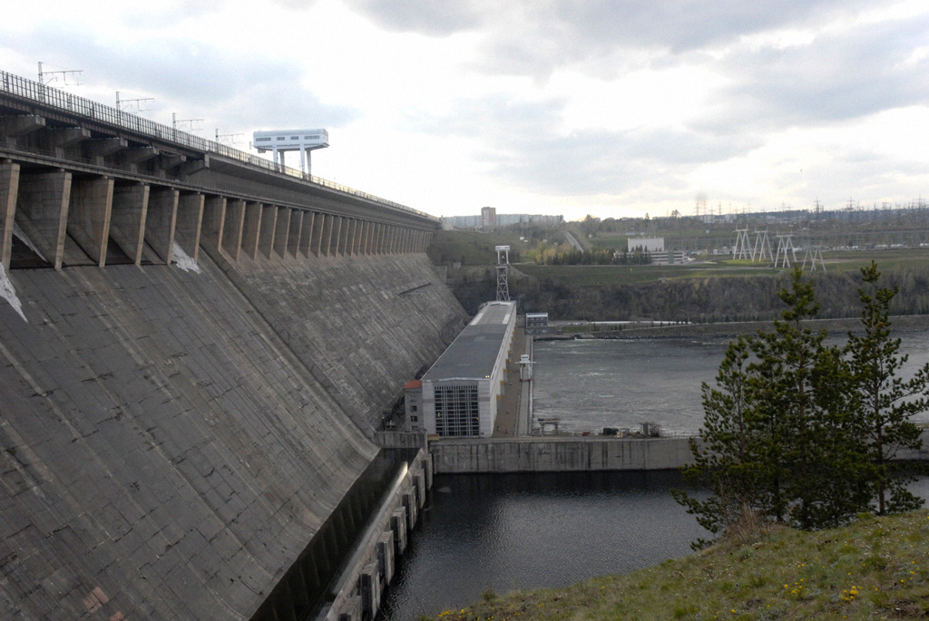 “Dam of Bratsk hydroelectric power plant”. The dam of the Bratsk hydroelectric power plant, the Irkutskenergo company.